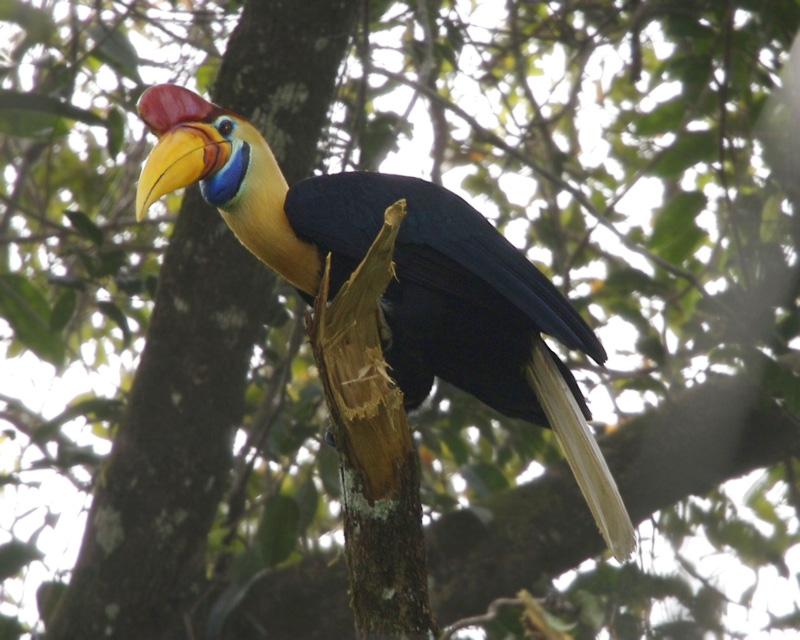 Knobbed Hornbill (Aceros cassidix). Adult male in Tangkoko Nature Reserve, North Sulawesi, Indonesia. 9 July 2006